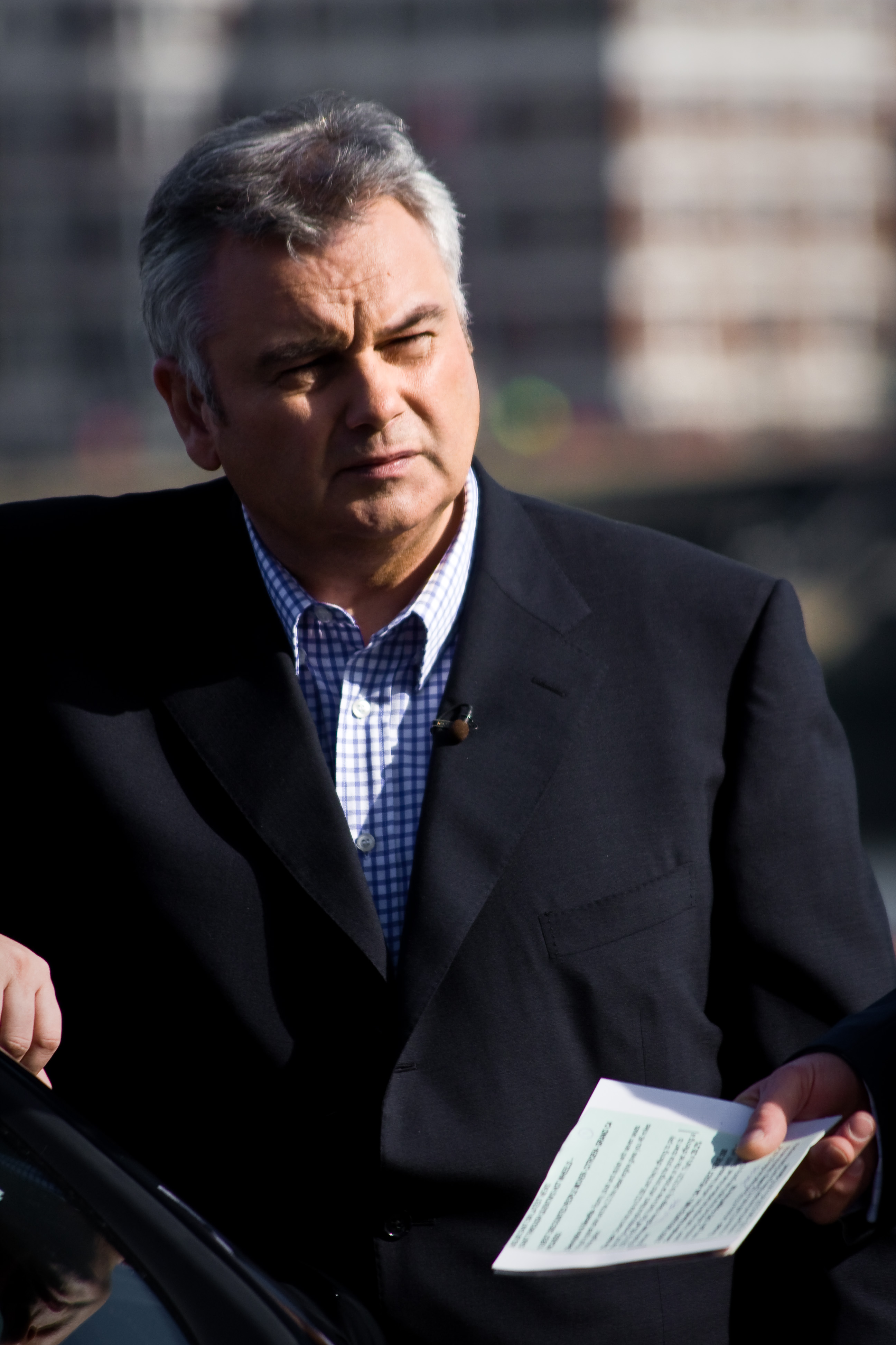 TV presenter Eamonn Holmes does a piece to camera on London's South Bank.